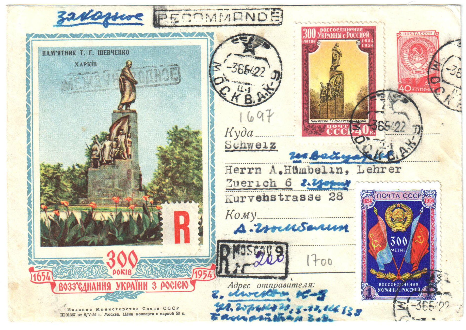 USSR 1954-06-03 uprated registered stamped 40k envelope sent from Moscow to Zurich. Additionally franked with 40k (Mi. 1703) and 1r (Mi.1707). Over franked 70k, the rate for international registered letters was 1.10R. Envelope and stamps commemorating 300 years uniting Ukraine and Russia. Catalogue: Mi. 1703 and 1707, CPA 1761 and 1762.